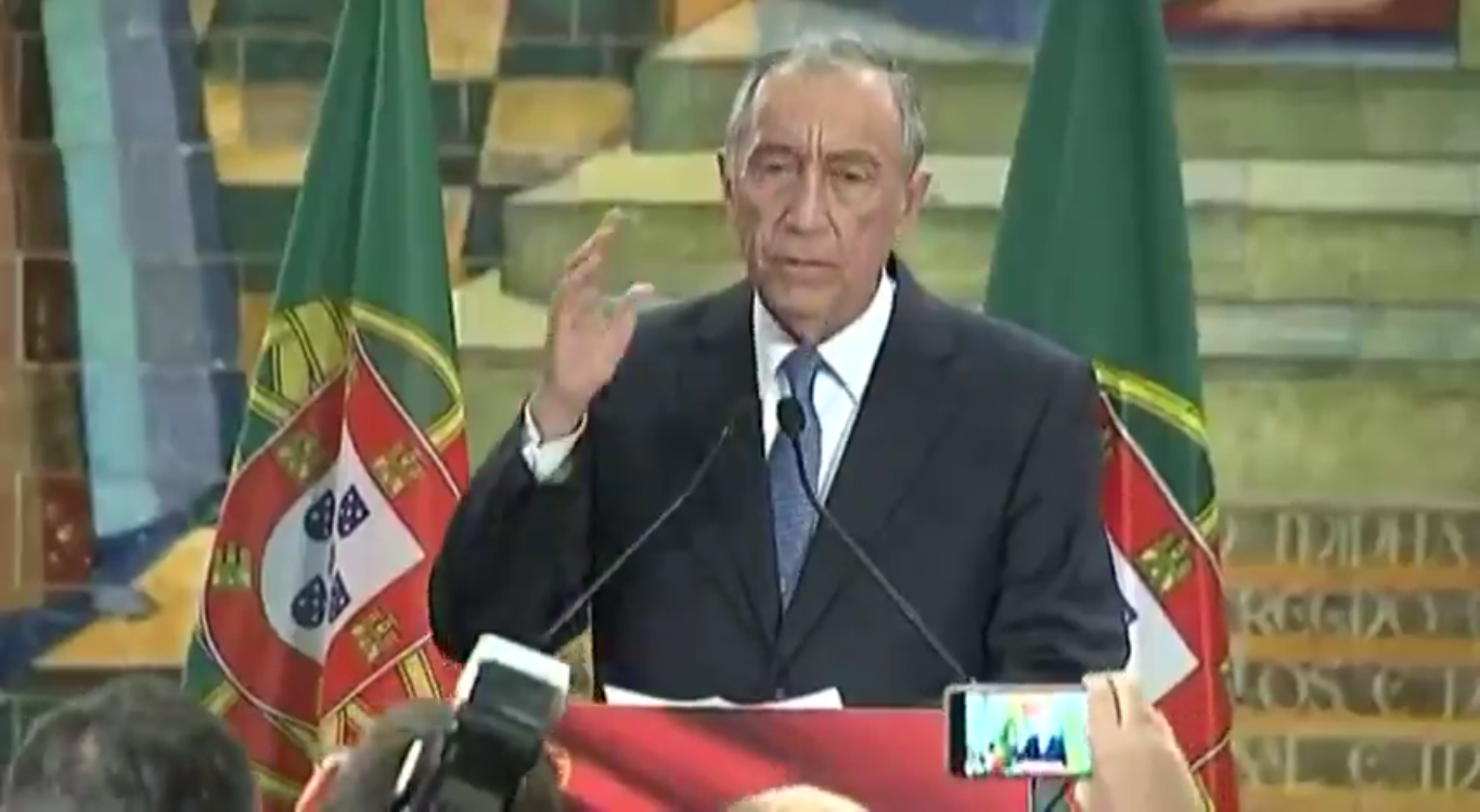 President Marcelo Rebelo de Sousa's election night victory speech, in the Atrium of the Faculty of Law of the University of Lisbon, on 24 January 2016.